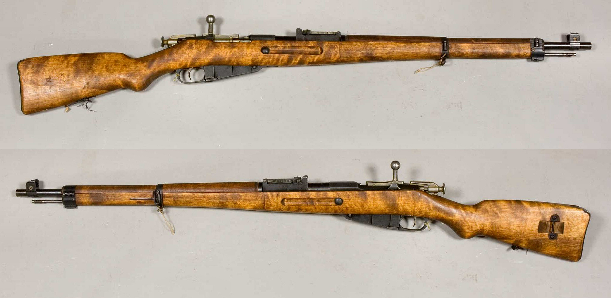 Mosin-Nagant rifle Model 1939, Finland. Caliber 7.62x54mmR. From the collections of Armémuseum (Swedish Army Museum), Stockholm, Sweden.